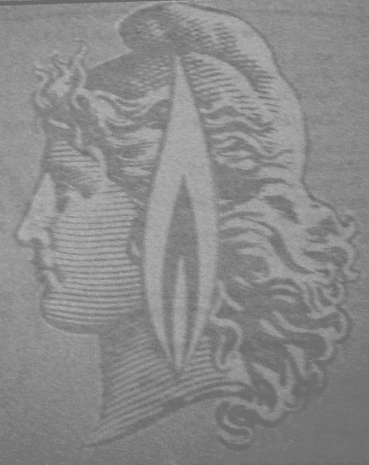 The "Effigy of Liberty", an allegoric rendition of the Argentine Republic, printed on an invoice sent by local natural gas provider, "Gas del Estado", to its customers.